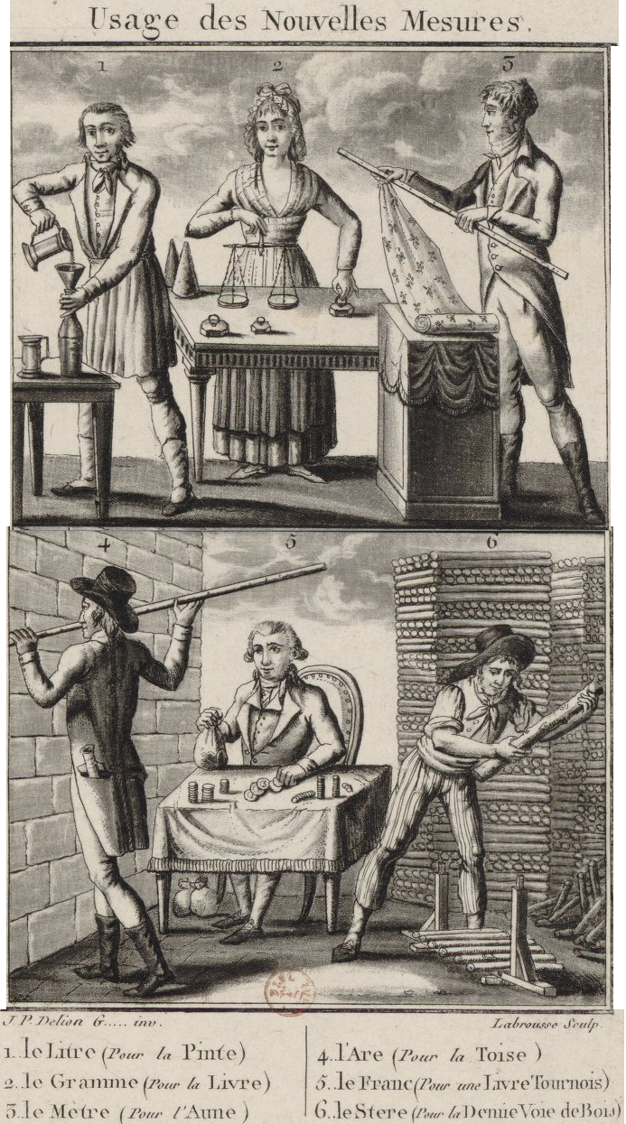 Woodcut dated 1800 illustrating the new decimal units which became the legal norm in France on 4 November 1800, five years after the the metrical system was first introduced. In the captions, each one of these six new units is followed by the old French unit in brackets: the litre, the gram, the metre, the are (100 square metres), the franc, and the stère (1 cubic metre of wood).